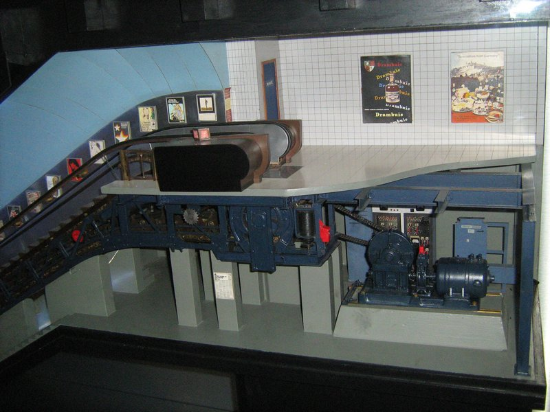 Escalator model in London Transport Museum